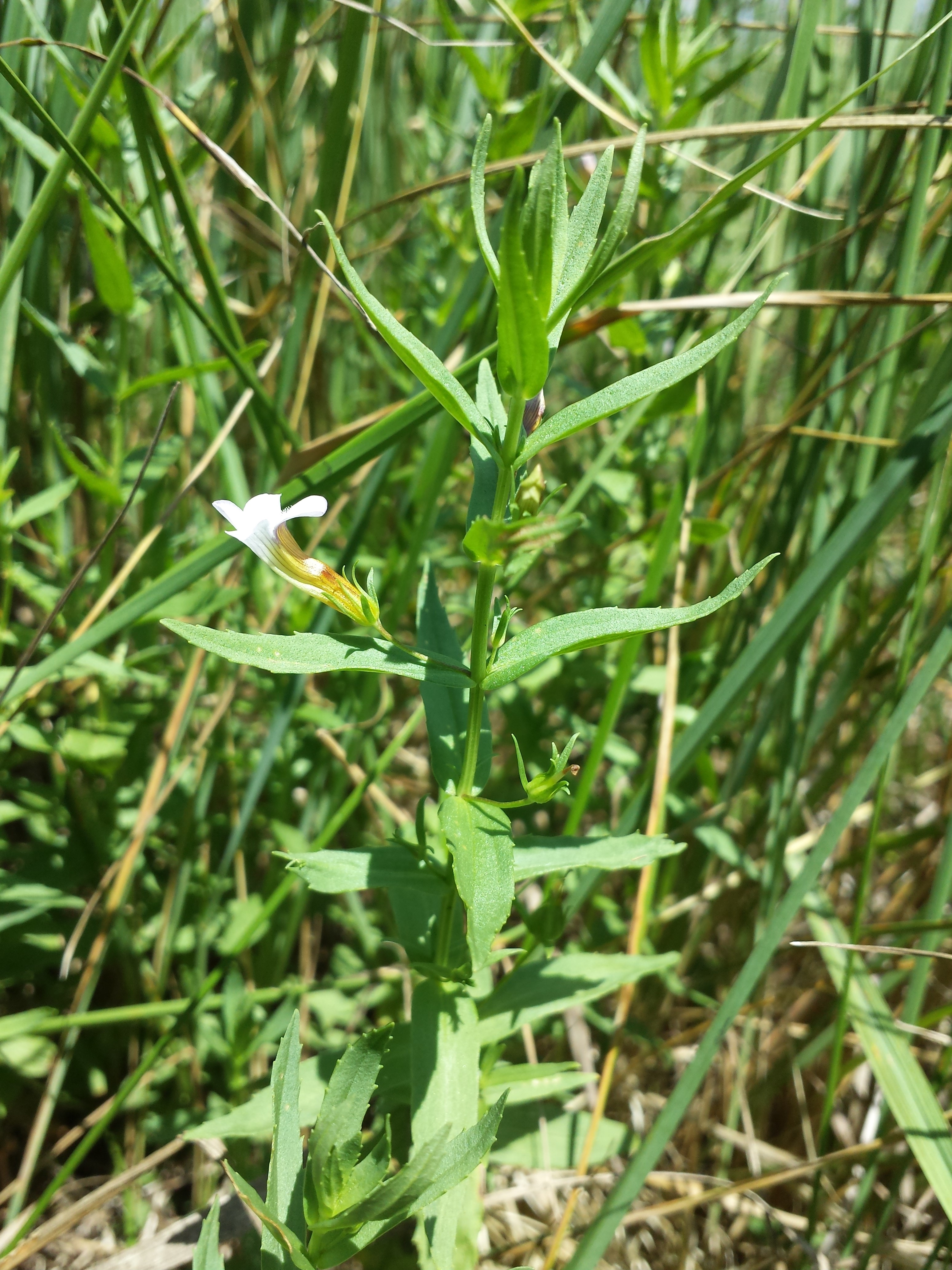 Habitus Taxonym: Gratiola officinalis ss Fischer et al. EfÖLS 2008 ISBN 978-3-85474-187-9 Location: next to Aspenwald near Zurndorf, district Neusiedl am See, Burgenland, Austria - ca. 130 m a.s.l. Habitat: periodically wet meadows